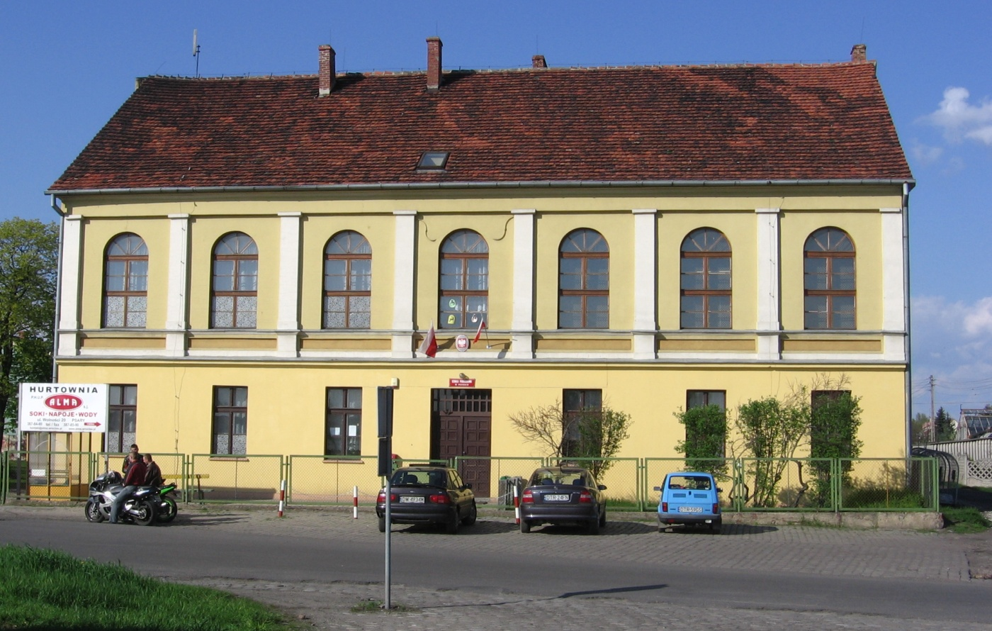 village Psary near Wrocław: elementary school